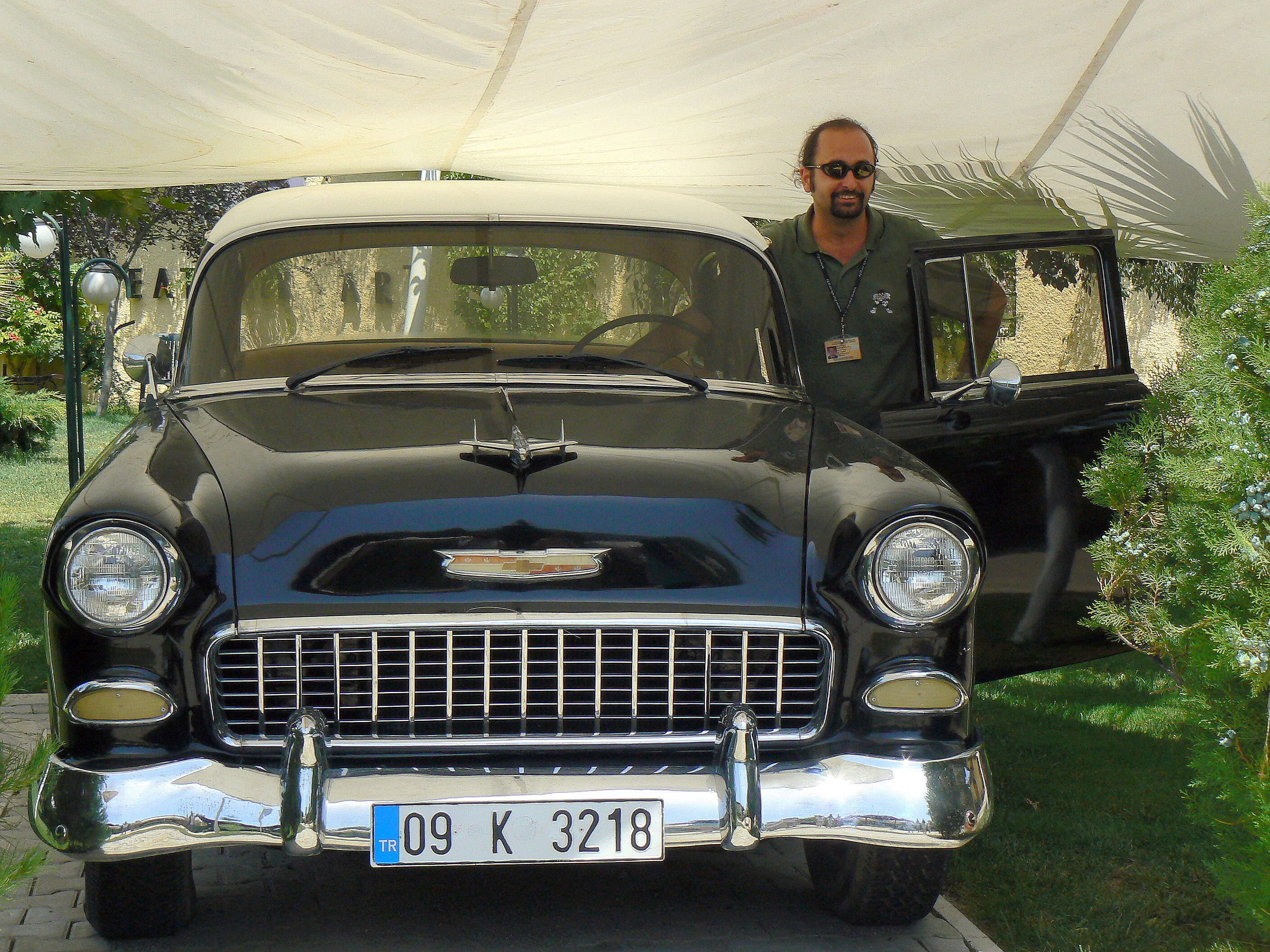 Bulent and his dream car?!